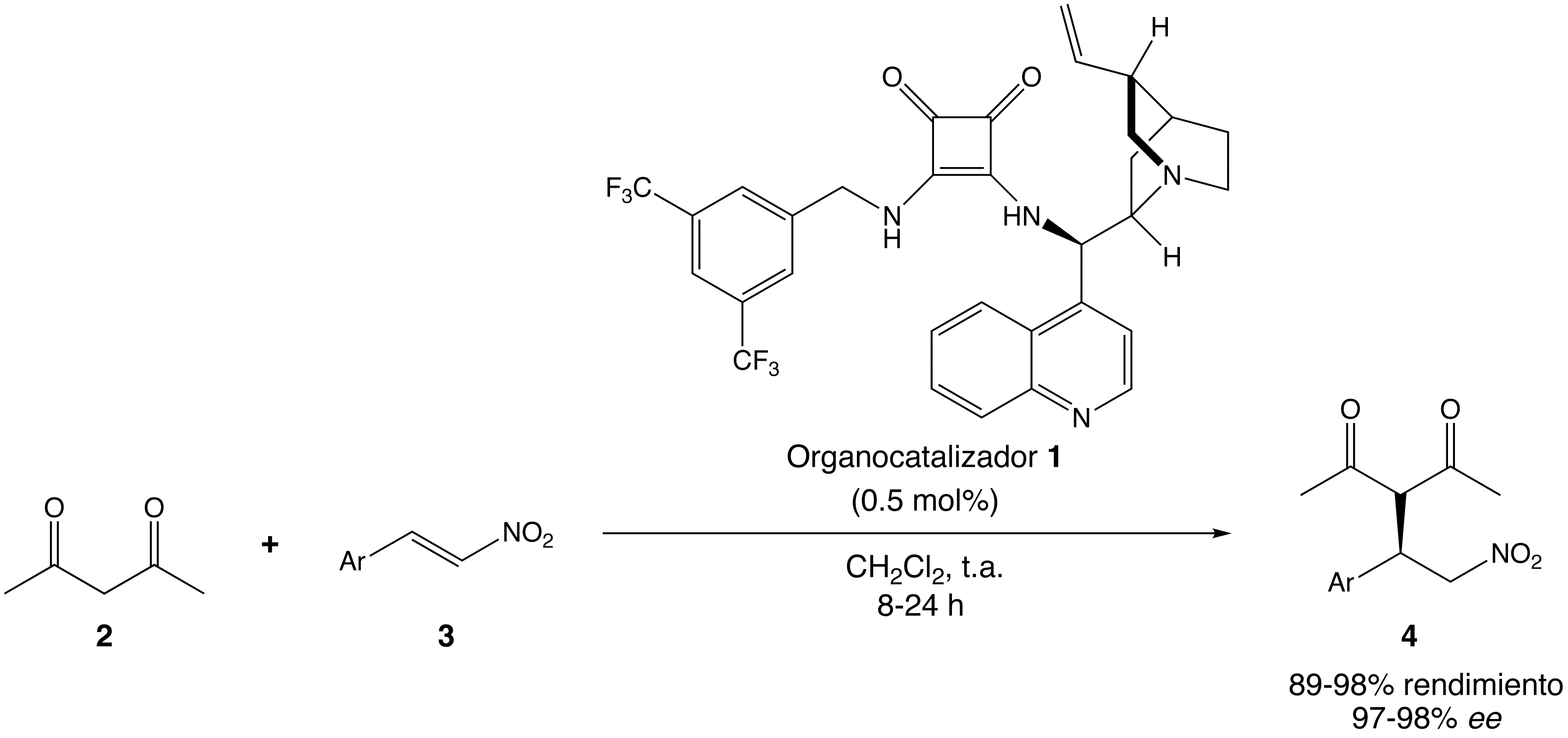 Adición de Michael de la pentano-2,4-diona a derivados del trans-β-nitroestireno catalizada por el Organocatalizador 1 (Malerich, Hagihara, & Rawal, 2008).